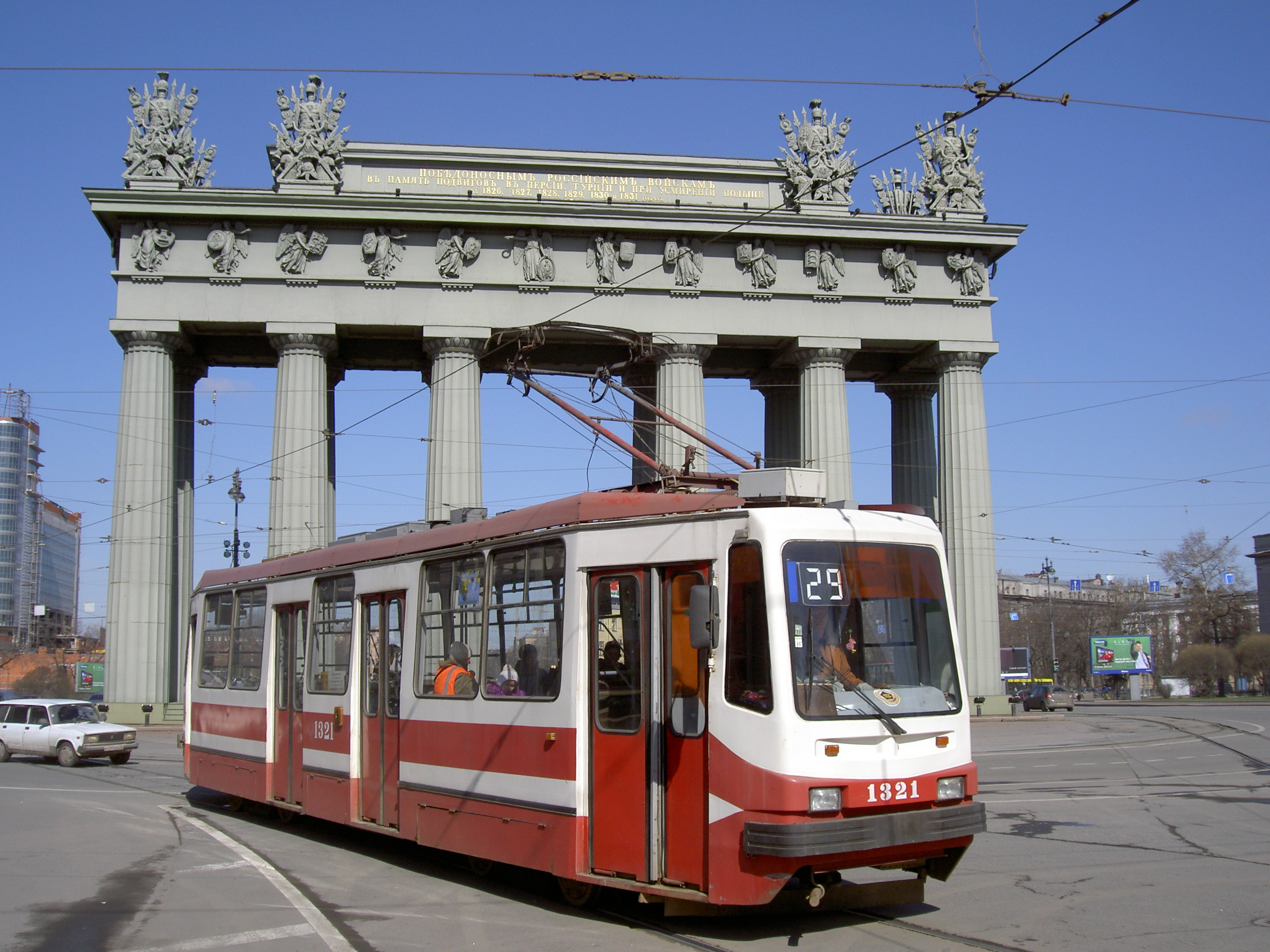 Tram at Moskovskiye Vorota square in Saint Petersburg